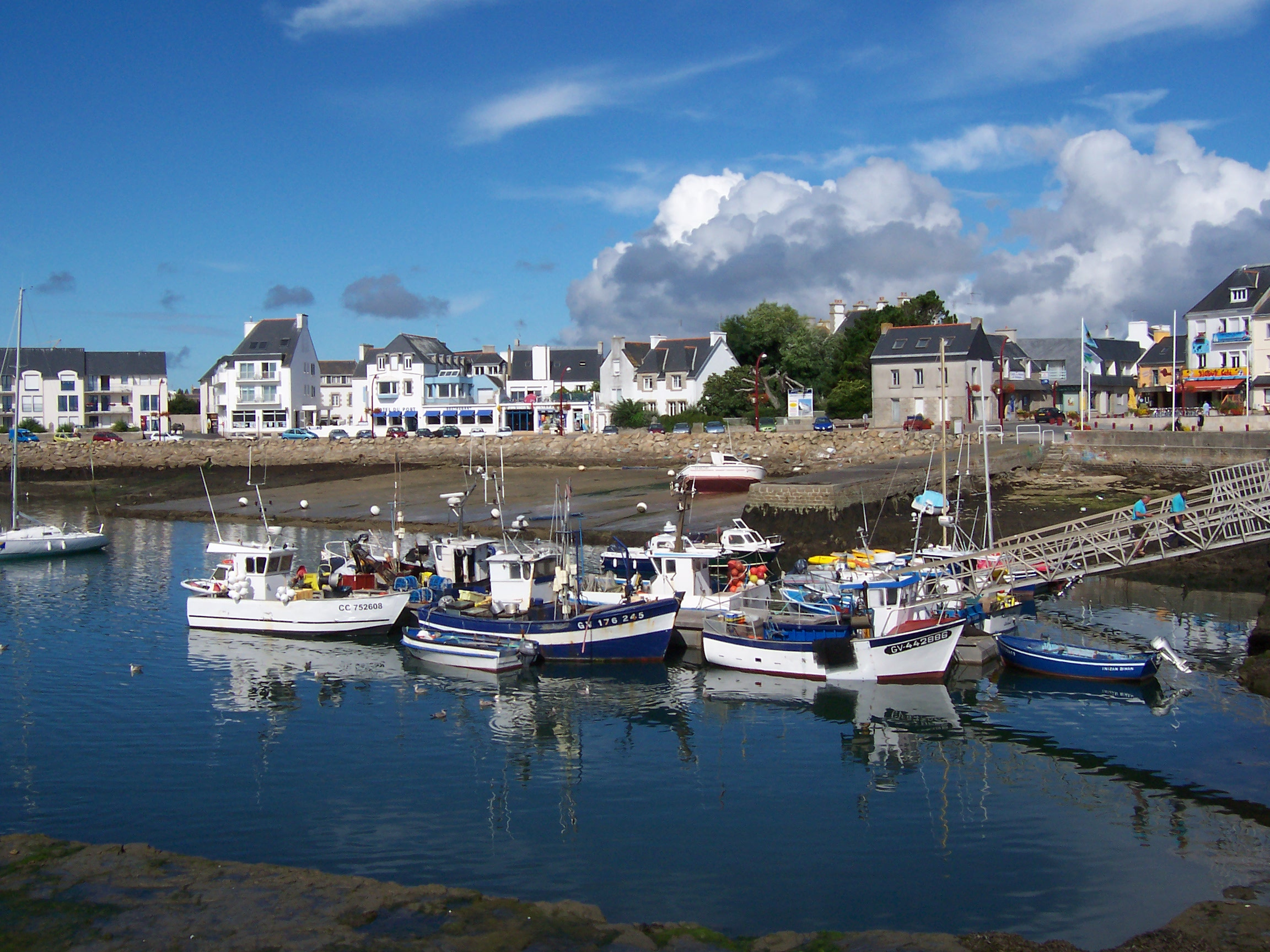 Description Port de Lesconil DateSourceOwn work by the original uploaderAuthorJean-Ronan Vigouroux (User:Jeanronan) Port de Lesconil